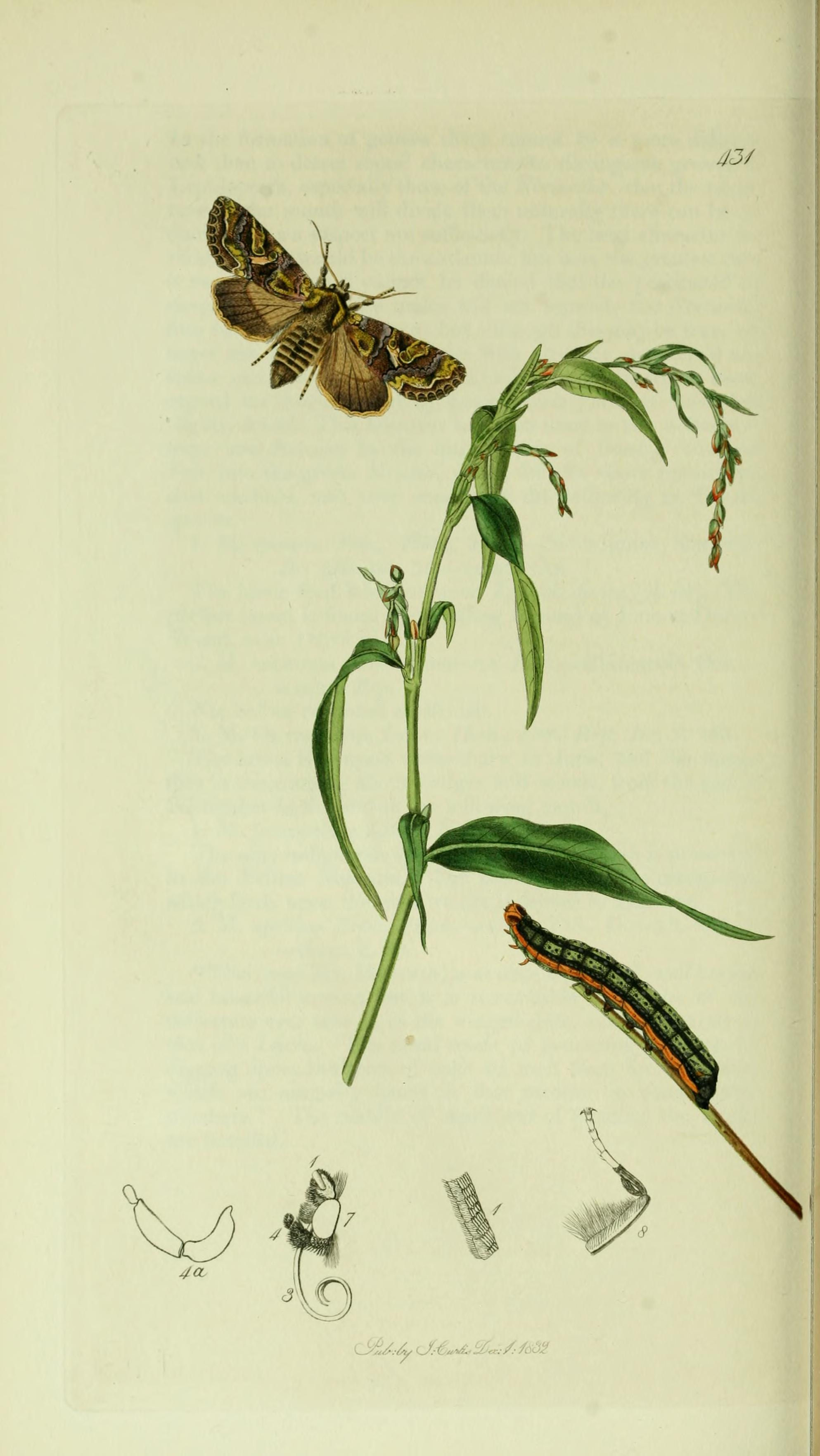 An illustration from British Entomology by John Curtis. Trachea atriplex or Trachea atriplicis (Orache, Orache Brocade).